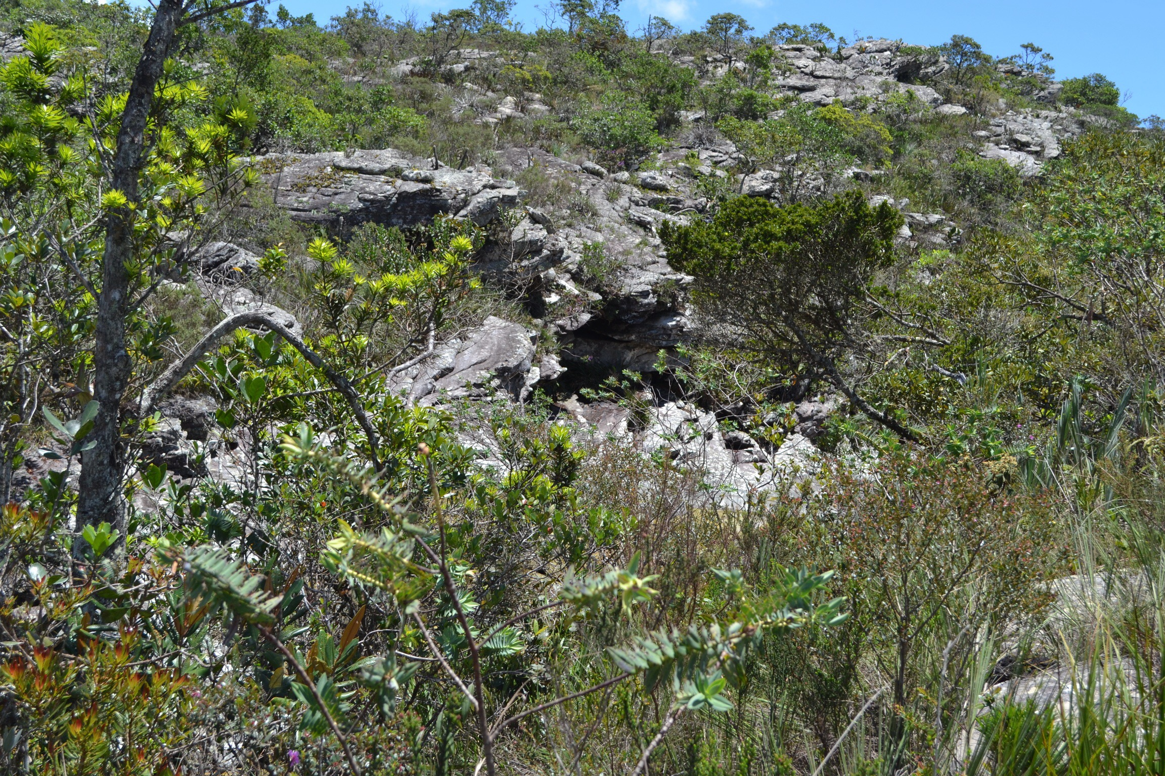 Photo taken at Serra do Cipó in Minas Gerais of the rocky outcrops typically occurring in the campos rupestres